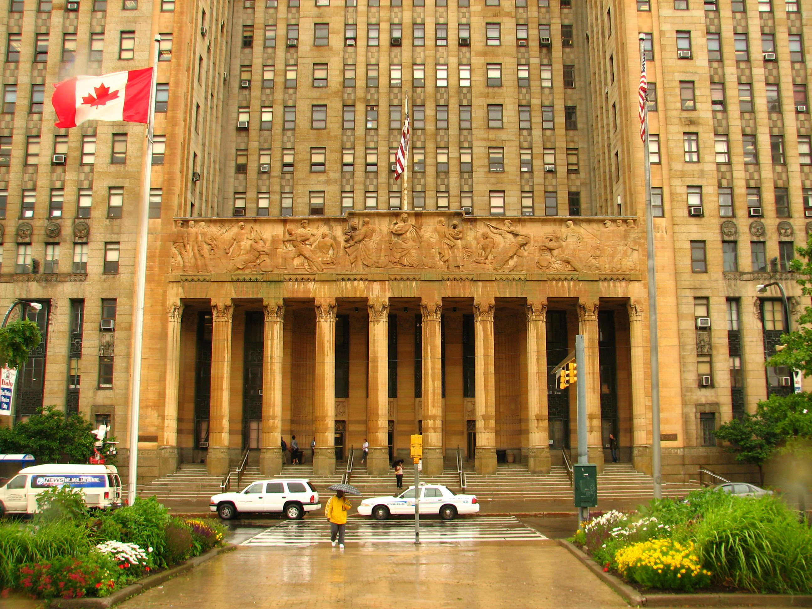 Entrance Reliefs on Buffalo City Hall, Buffalo, New York